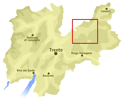 Position of the valley Val di Fiemme